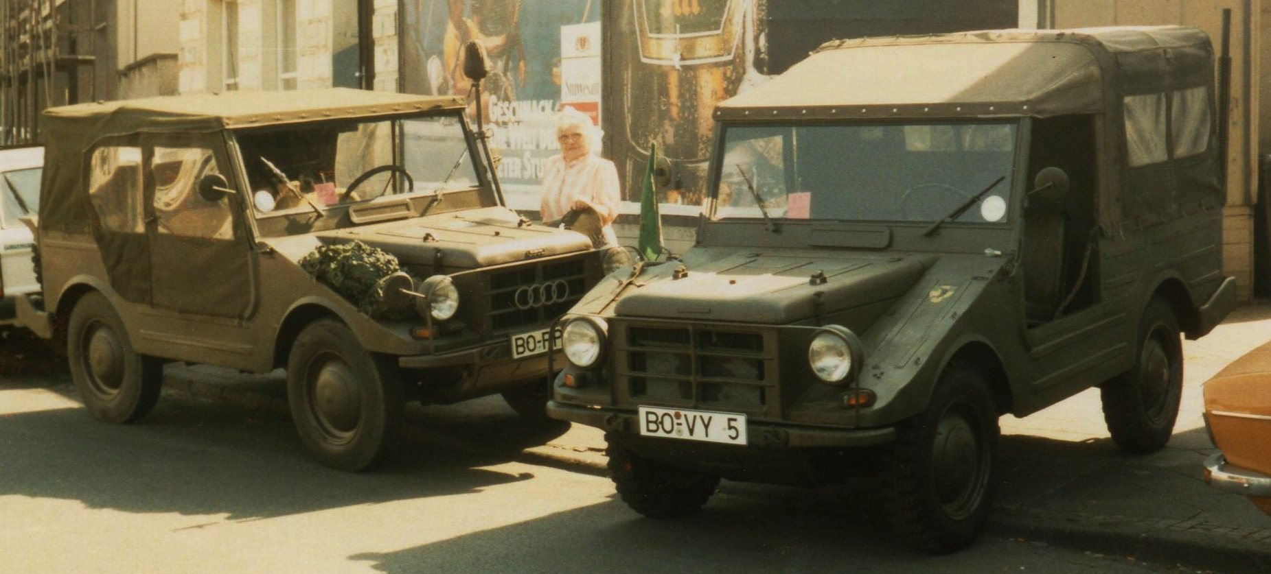 Munga 4 and Munga 8, ex German Army cars